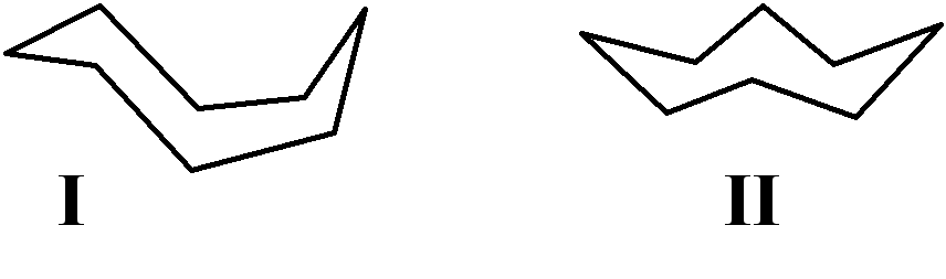 Boat-chair and Crown conformations of cyclooctane. The boat-chair is the major form.